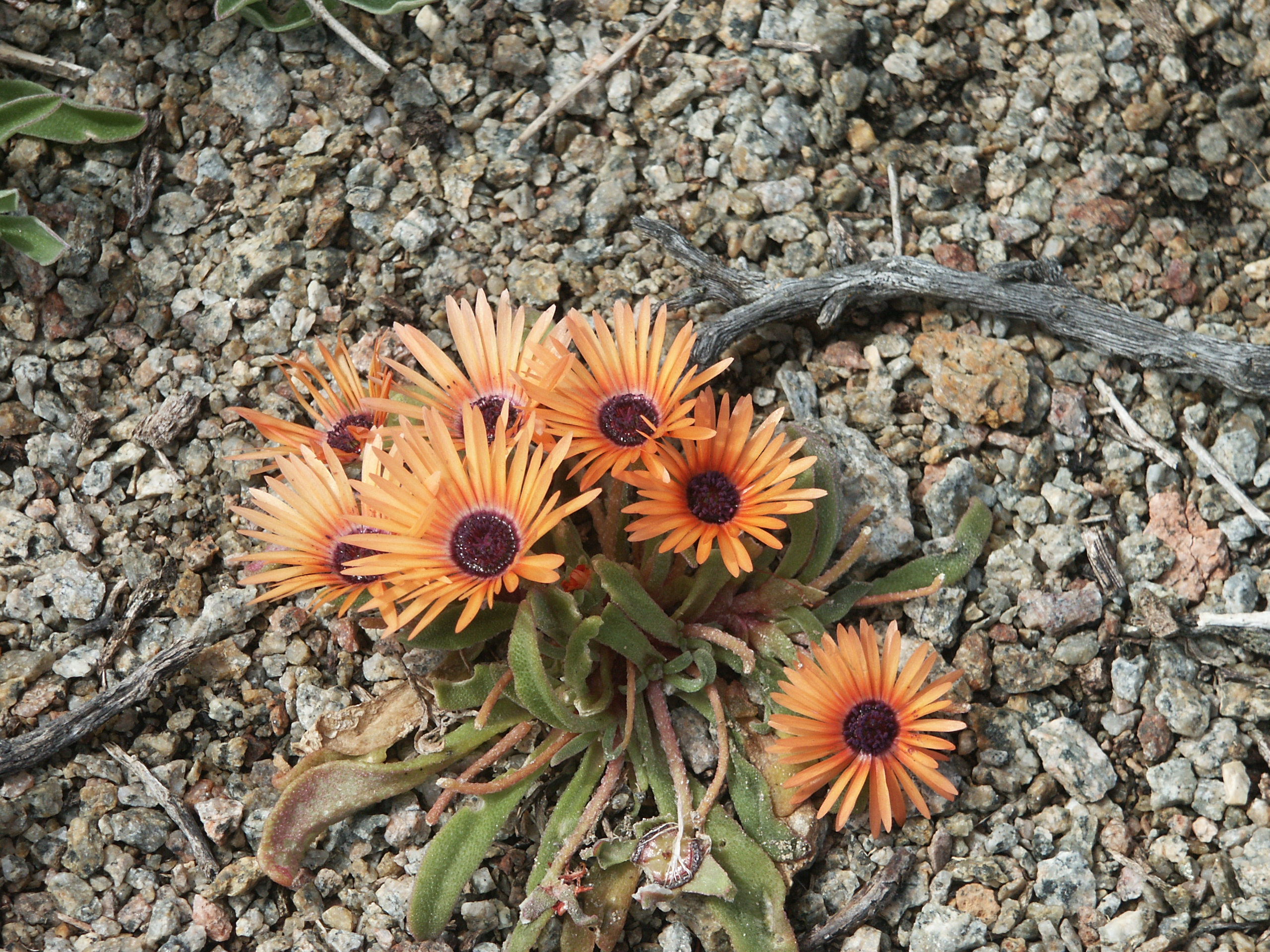 Dorotheanthus bellidiformisWest Coast N.P., Western Cape, South Africa